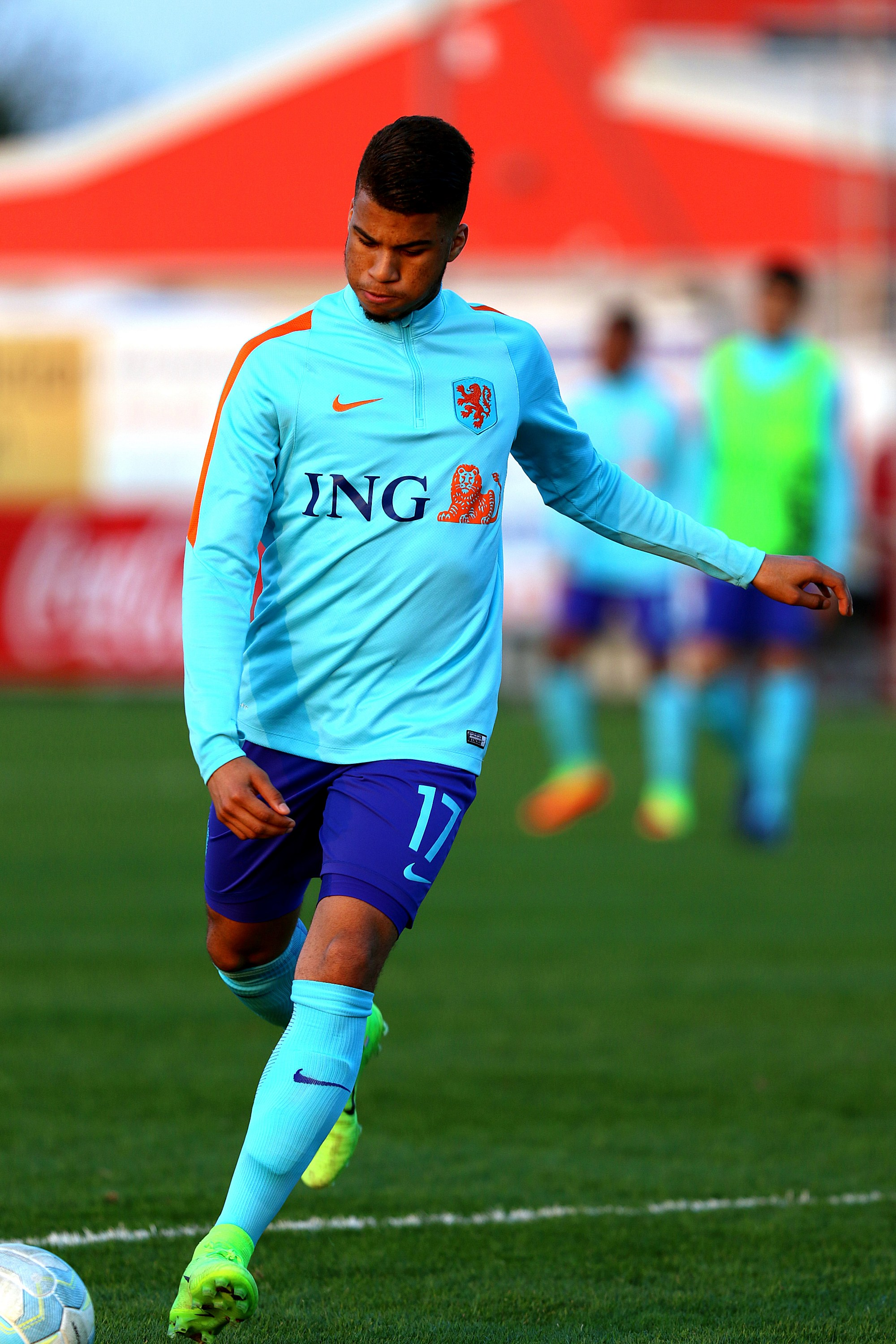 Friendly match Austria national under-18 football team (red shirts) vs. Netherlands national under-18 football team (blue shirts) 1–1 (1–0) on 2017-03-23 in Eggendorf – The photo shows Anderson Lopez (Ajax Amsterdam U19).